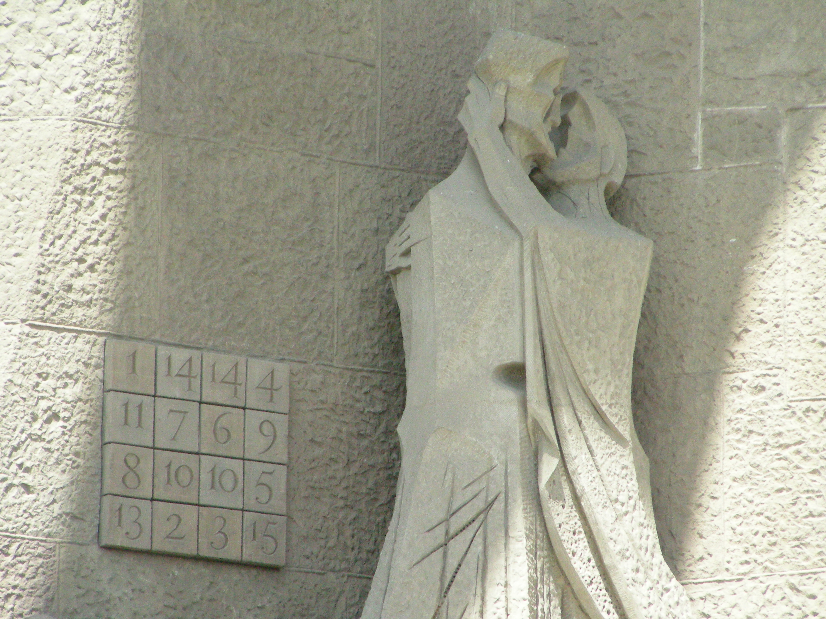 magic square on the Sagrada Familia